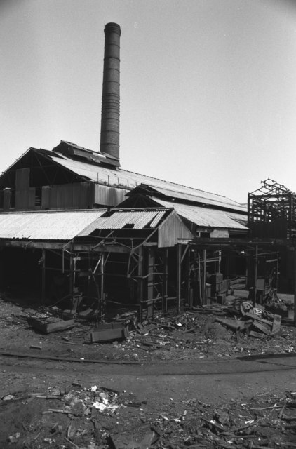 Atlas Forge Thomas Walmsley's after they had stopped rolling.